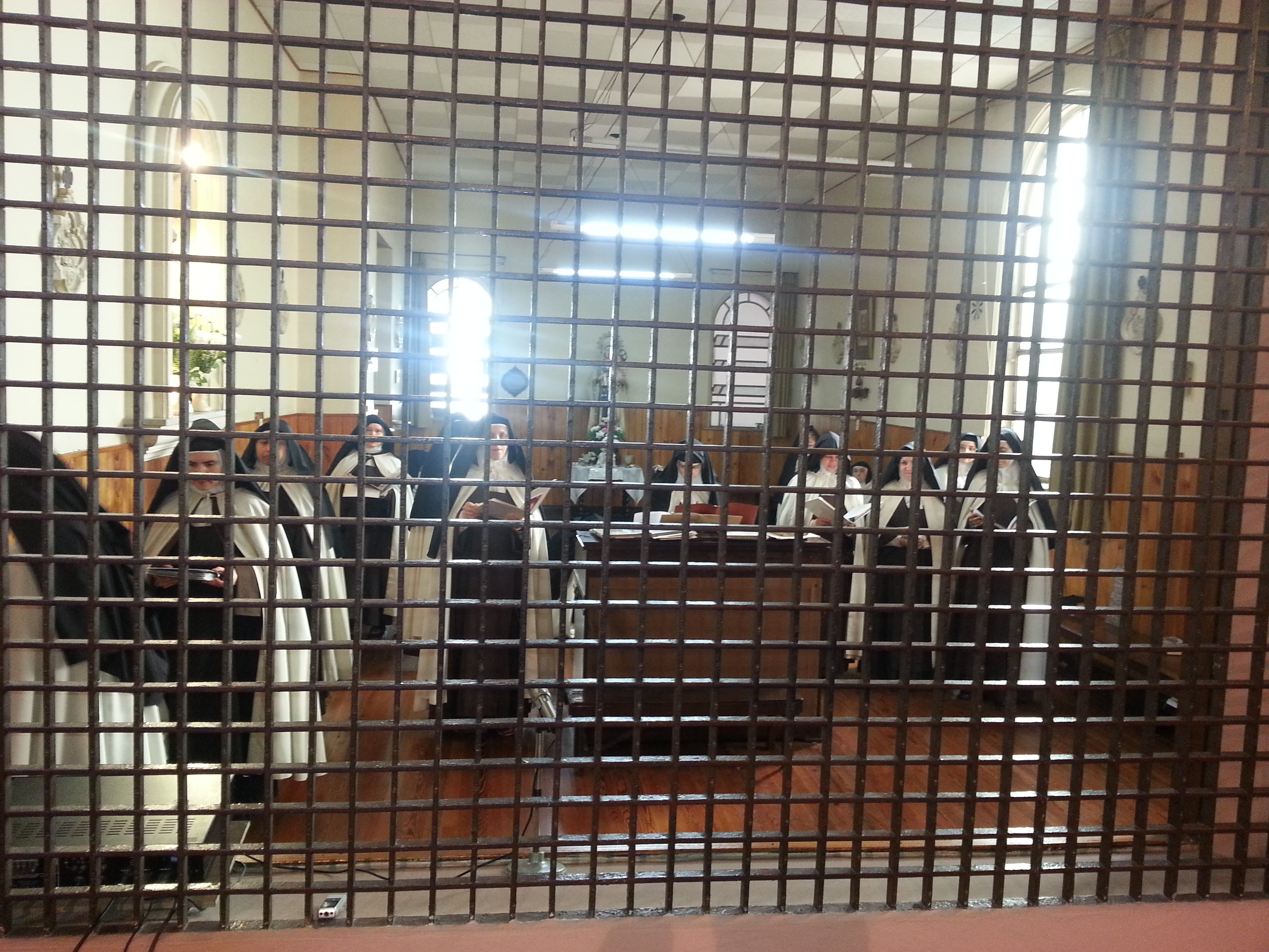 Enclosed discalced carmelites. Monasterio Santa Teresa de Jesús (Buenos Aires).